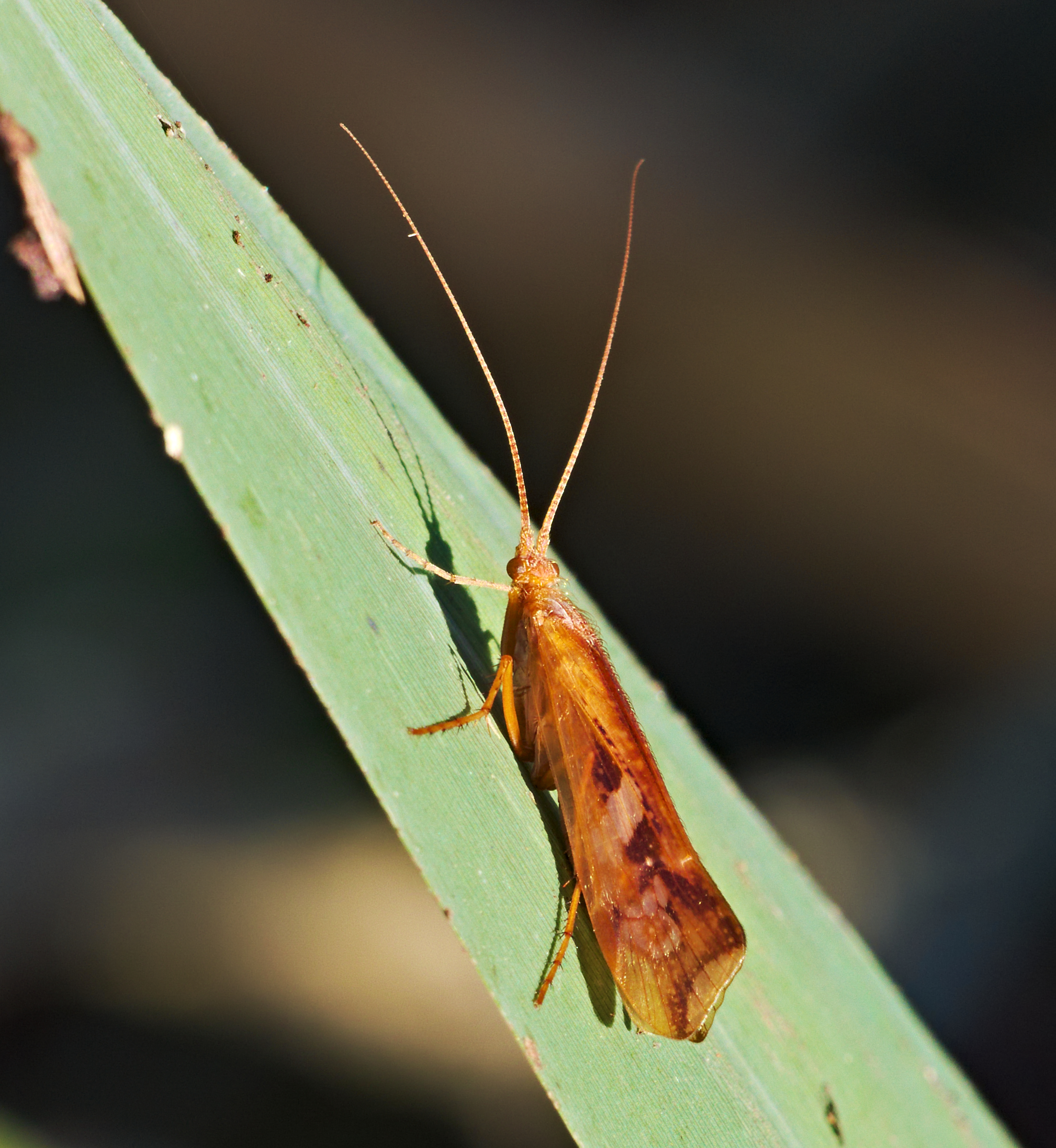 Northern caddisfly - Limnephilus rhombicus. Taken in Mannheim, Kirschgartshäuser Schläge by the Bruchgraben, Baden-Württemberg, Germany.